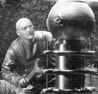 A mad scientist. Dr Alexander Thorkel (Albert Dekker) from Dr. Cyclops (1940).